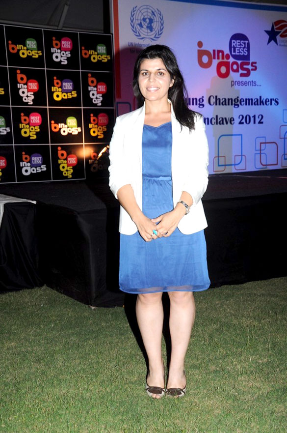 Awista Ayub at United Nations' Young Changemakers Conclave 2012